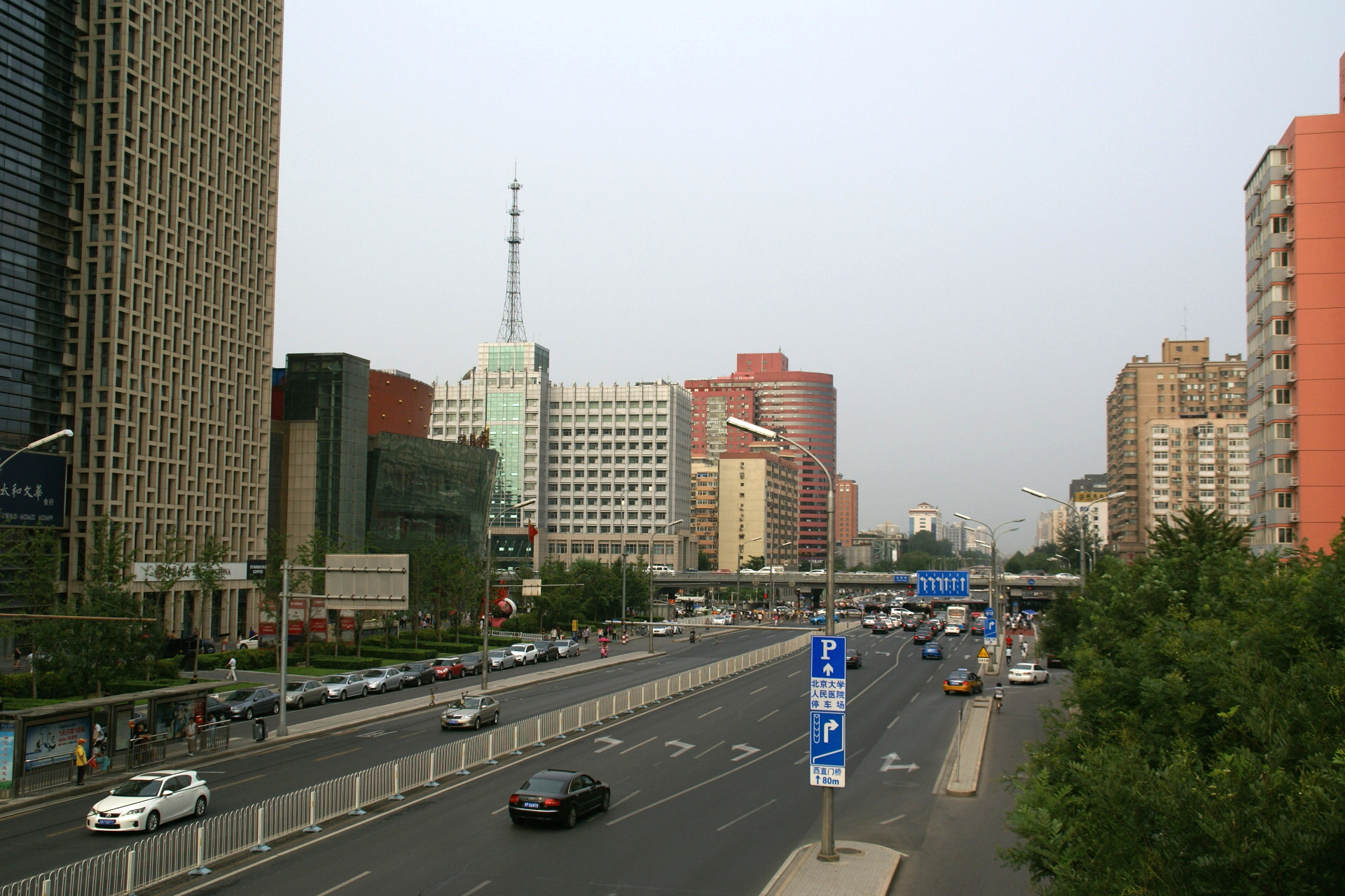 Ping'anli Xidajie (Ping'nali West Street) with Mei Lanfang Theater (Beijing Opera) at left - Beijing, 22.8.2014